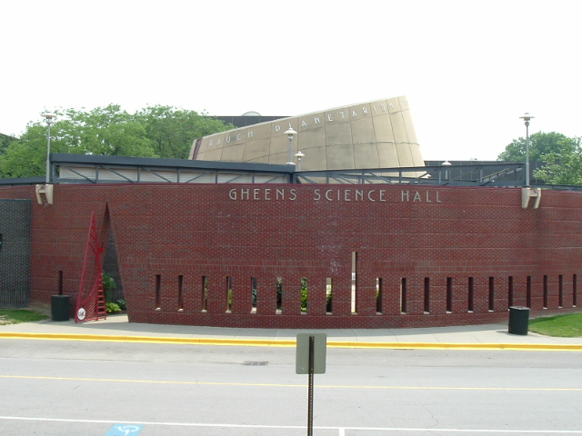 Rausch Planetarium, University of Louisville, Kentucky